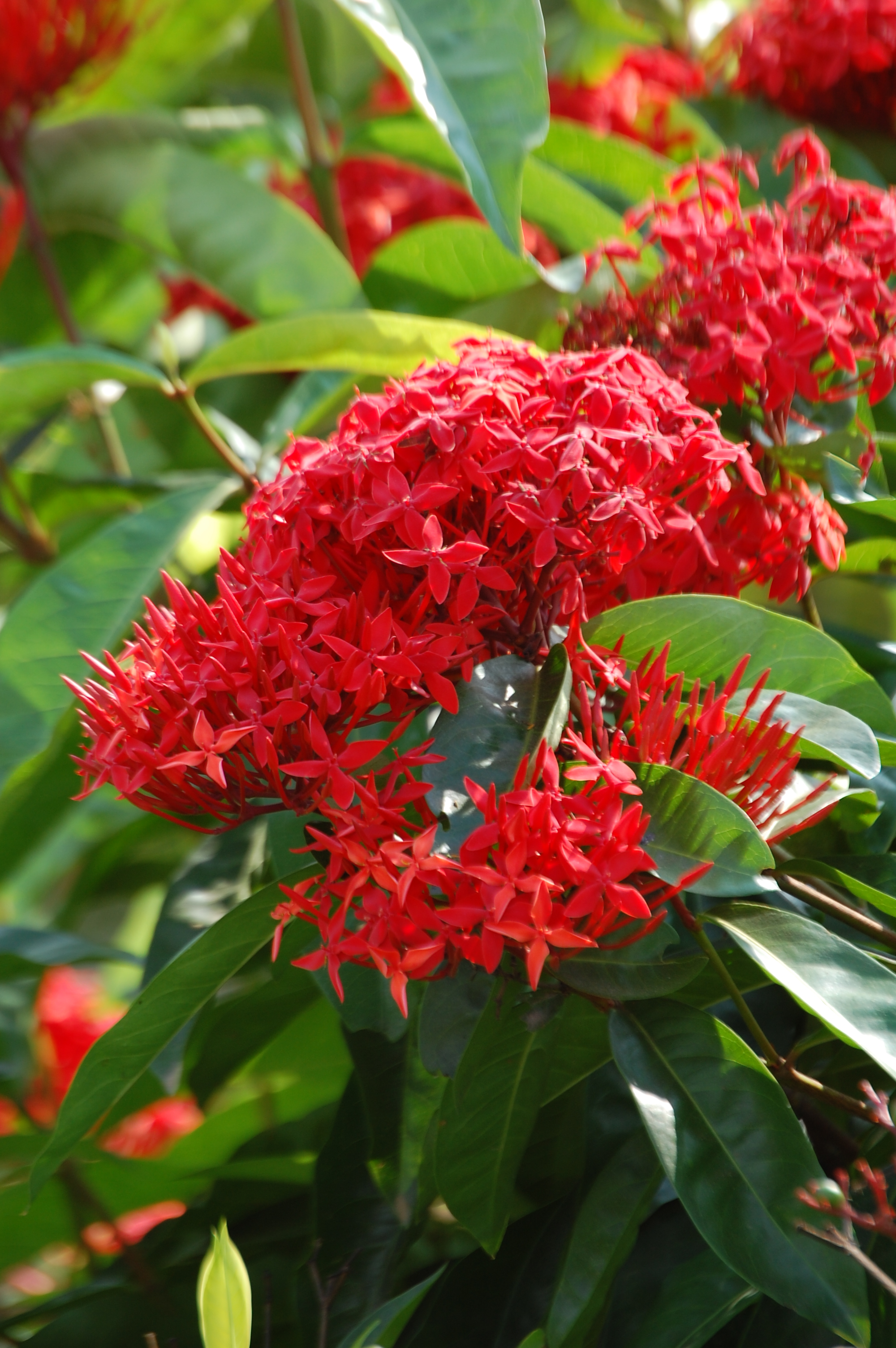 Ixora casei